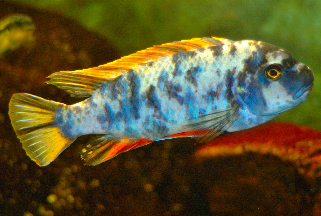 Labeotropheus fuelleborni